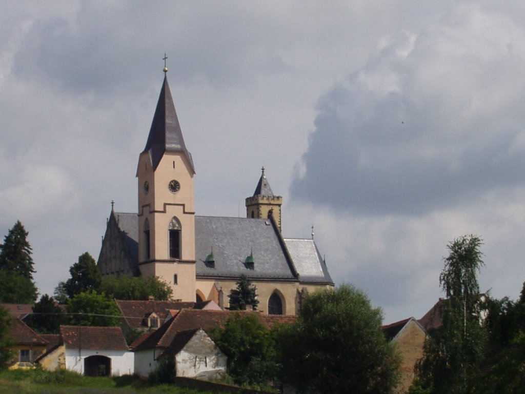 Church of the Assumption in Bavorov, Strakonice District, Czech republic